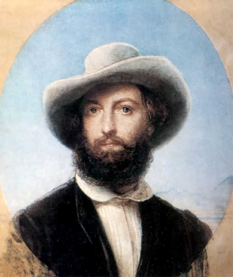 The self-portrait was undated. The today’s dating to 1840s is based on the time of Fyodor Moller’s sojourn in Italy and on the clothes of the painter: on the daguerreotype of 1845 he is photographed in the same white hat and the black cloak[1].